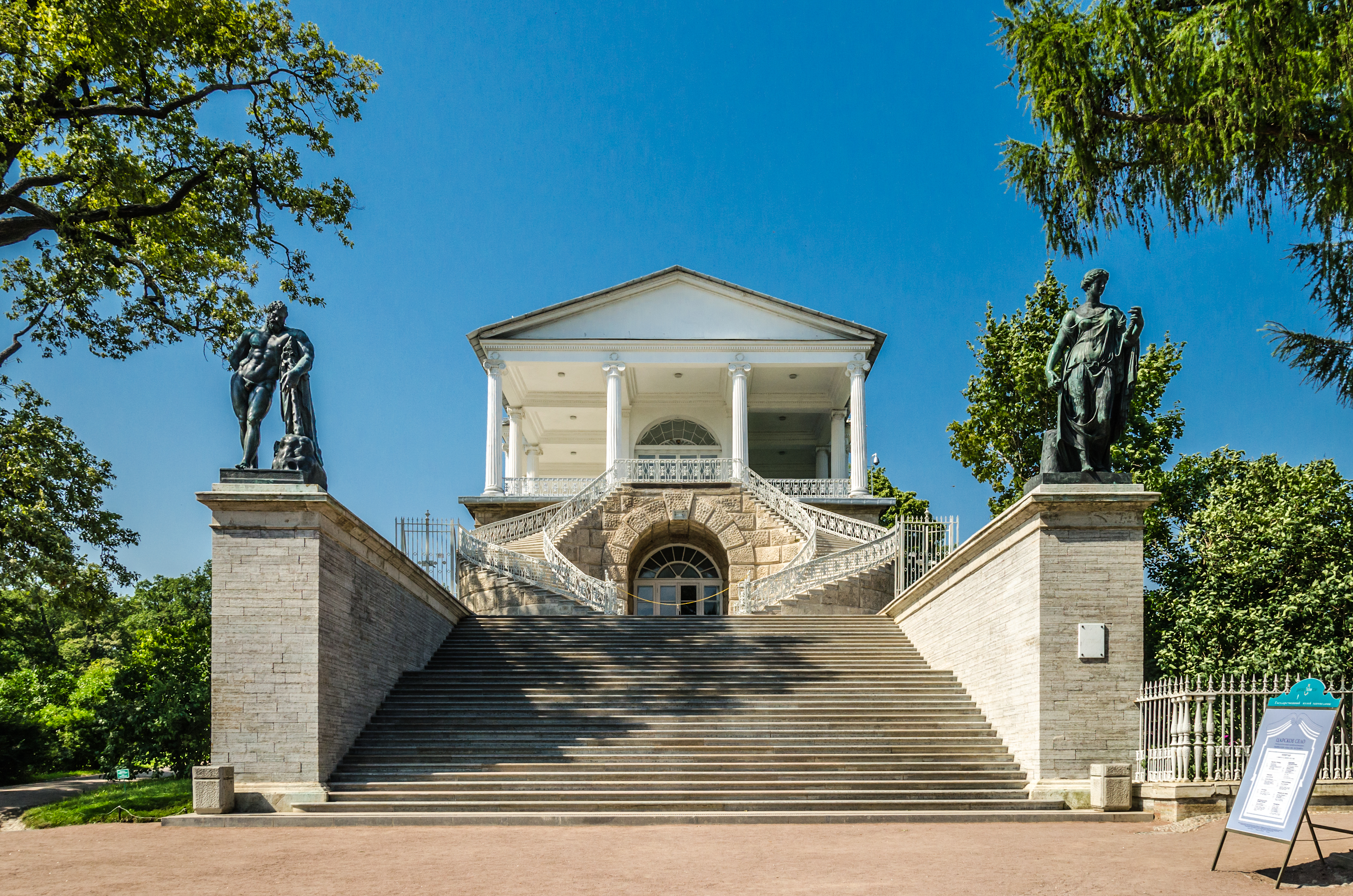 Cameron gallery in Catherine park of Tsarskoe Selo, Saint Petersburg